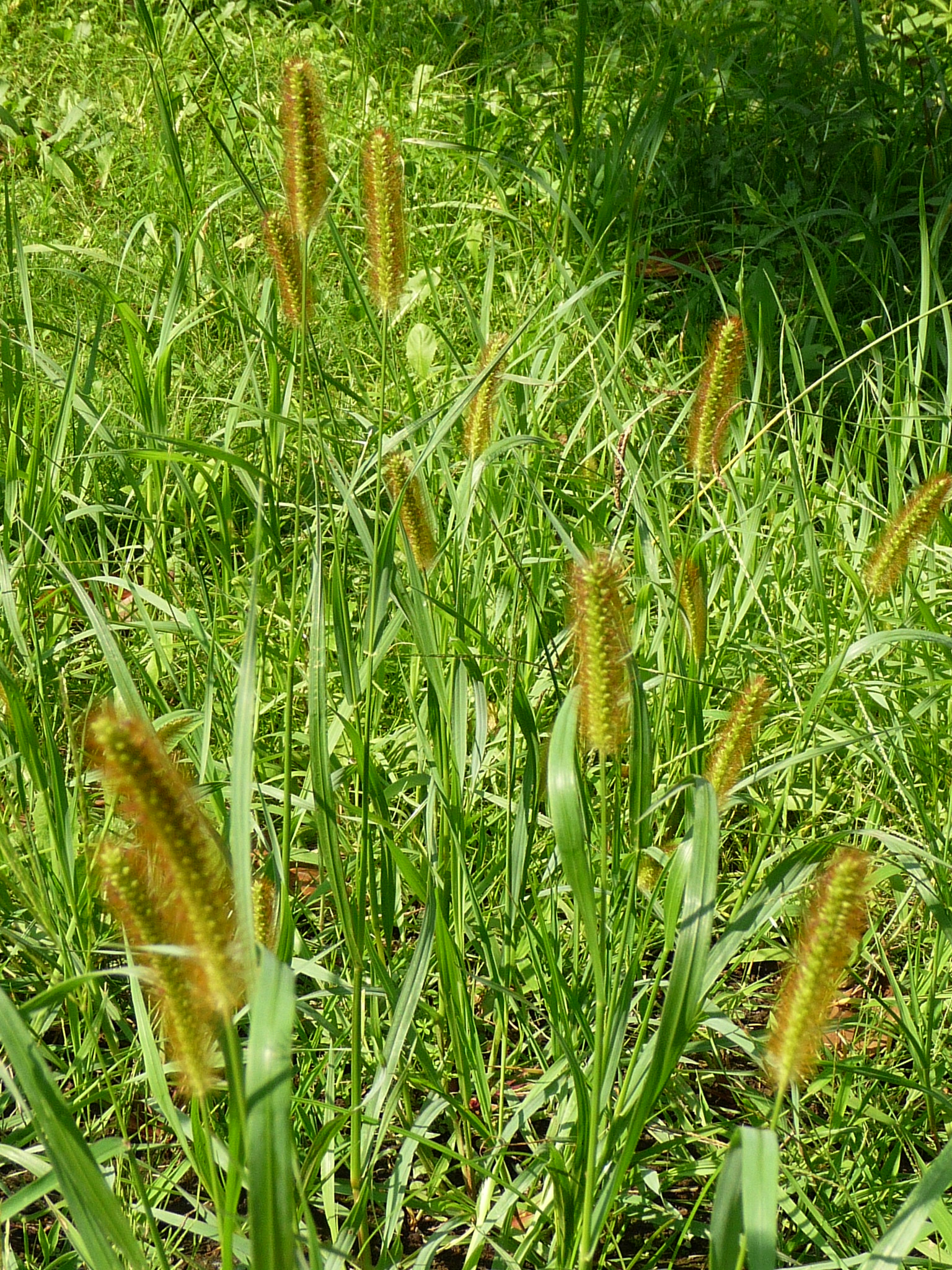 Setaria glauca auct. (kinenokoro-Japanese）,@ Chiba Japan､